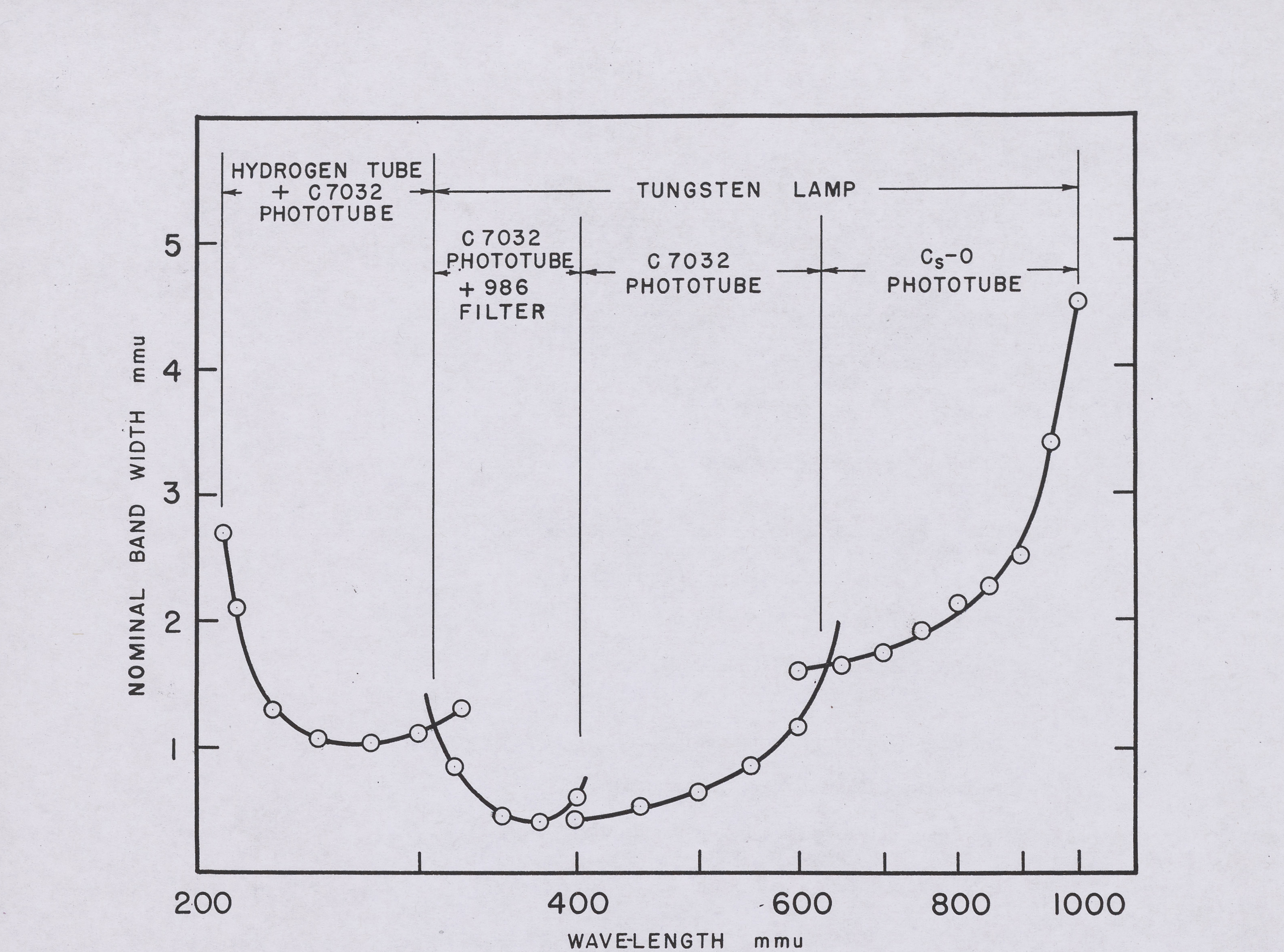 Original illustration used for Figure 9. Minimum spectral band widths which permit scale readings to 0.1 percent from from Cary, H. H.; Beckman, Arnold O. (1941). "A Quartz Photoelectric Spectrophotometer". Journal of the Optical Society of America. 31 (11): p. 688. No copyright renewal for the journal (first renewal appears for 1951). No copyright renewal for the paper. No copyright renewal for the photograph (checked 1968, 1969).